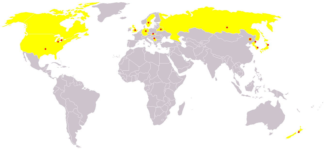 Changchun's International Sisters Cites